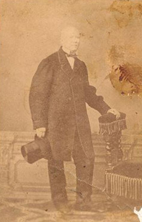 Only known picture of Maltese patriot Giorgio Mitrovich, shot by photographer Leandro Preziosi shortly before his death in 1885, provided by his descendants Metrovich family to the National Archives of Malta in 2018